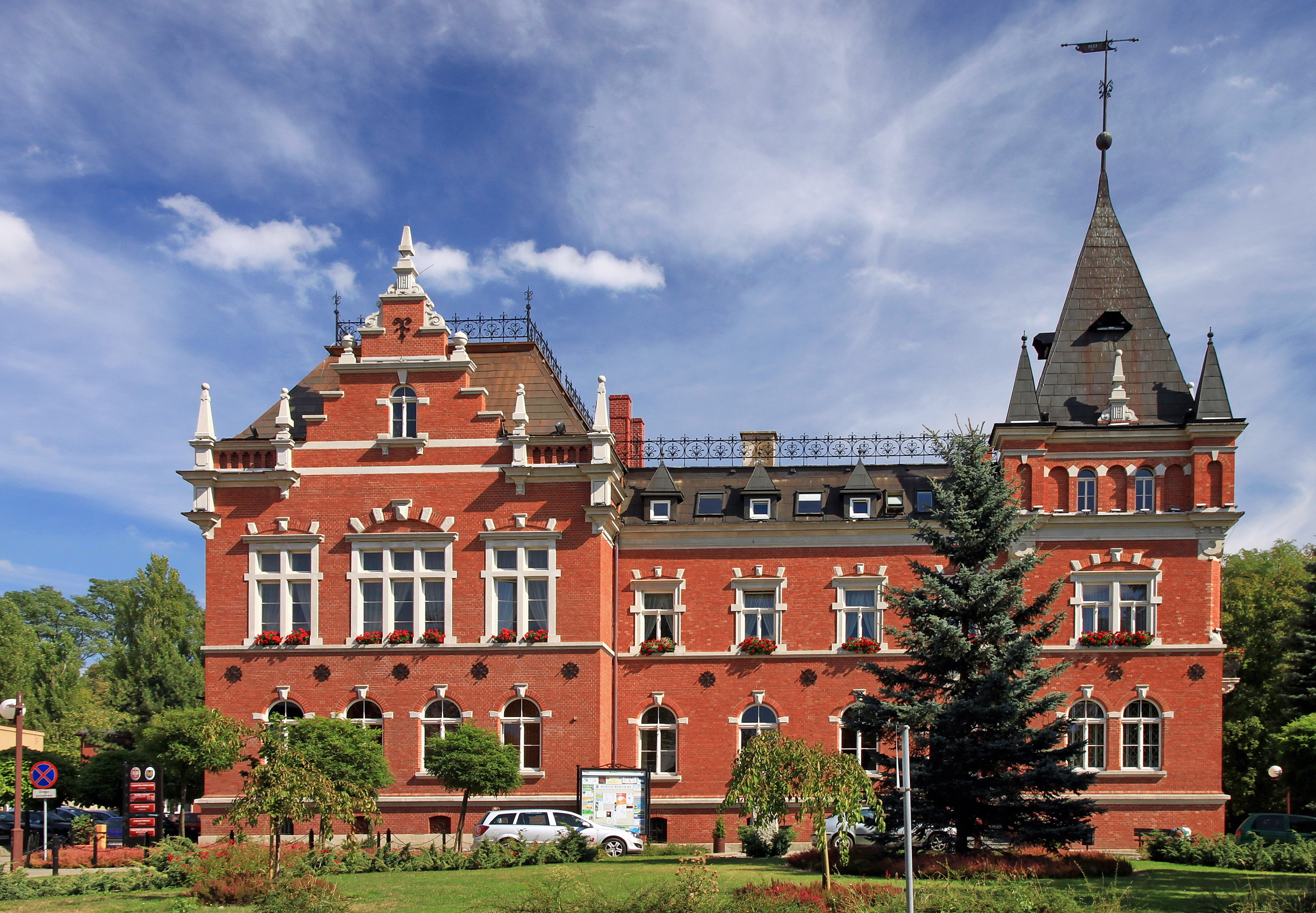 Rybnik, powiat office building, build in 1887